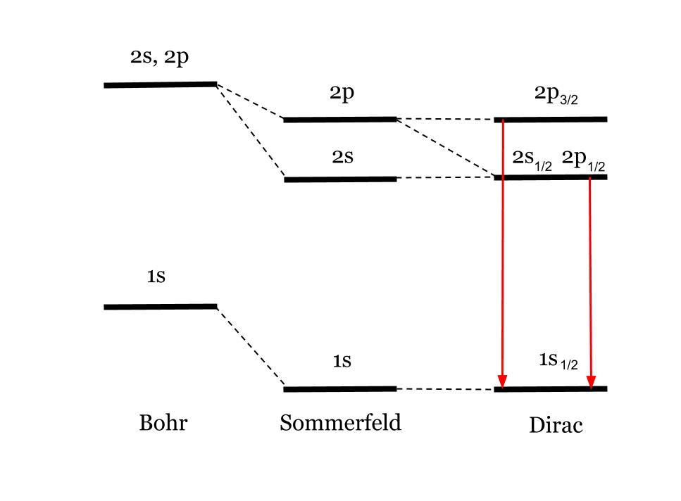 Lowest energy levels in H-atom from Bohr, Sommerfeld and Dirac theories